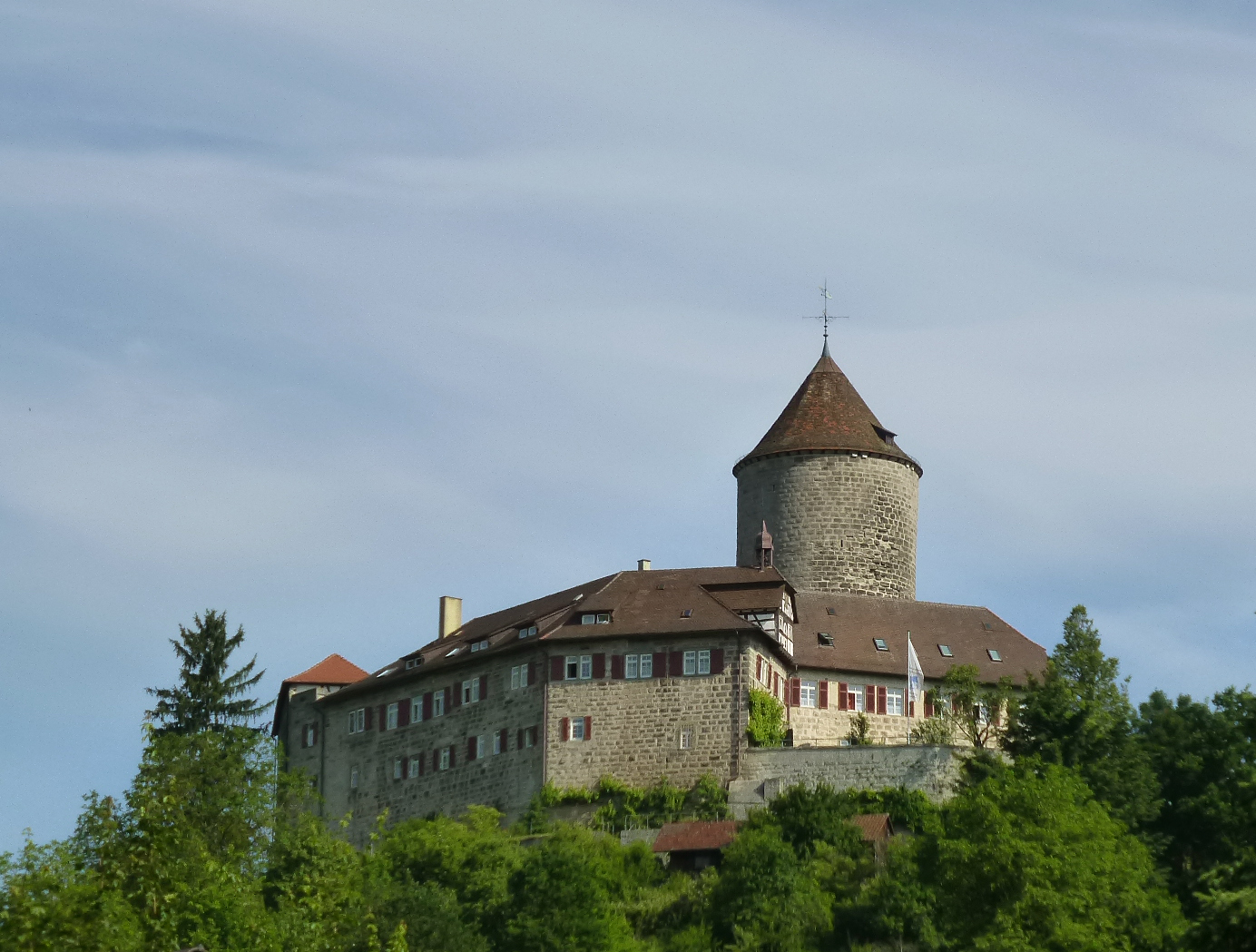 Oppenweiler Reichenberg Castle, zoom viewed from the road 14, Rems-Murr District, Baden-Wuerttemberg.